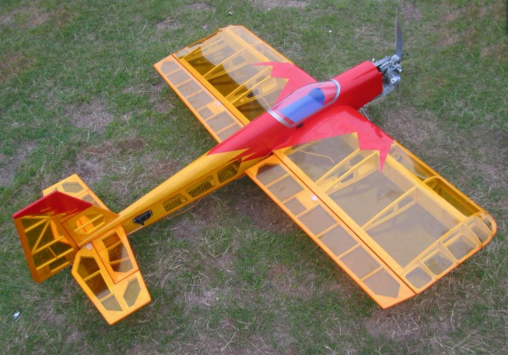 Radio-controlled aircraft